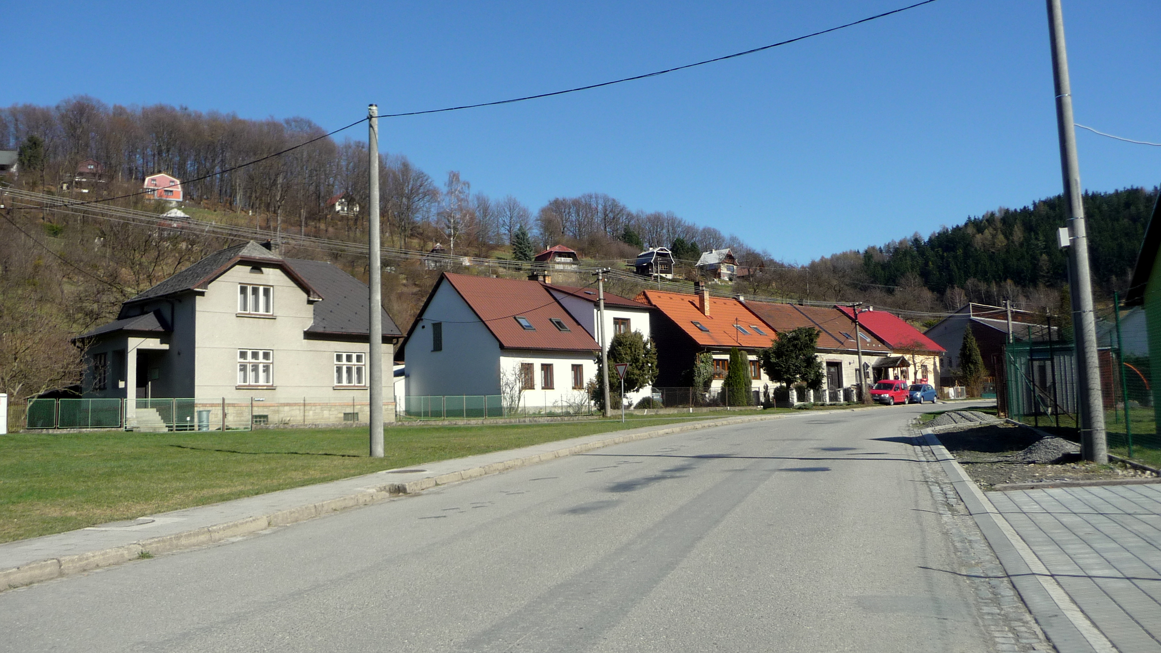 Road, Rusava